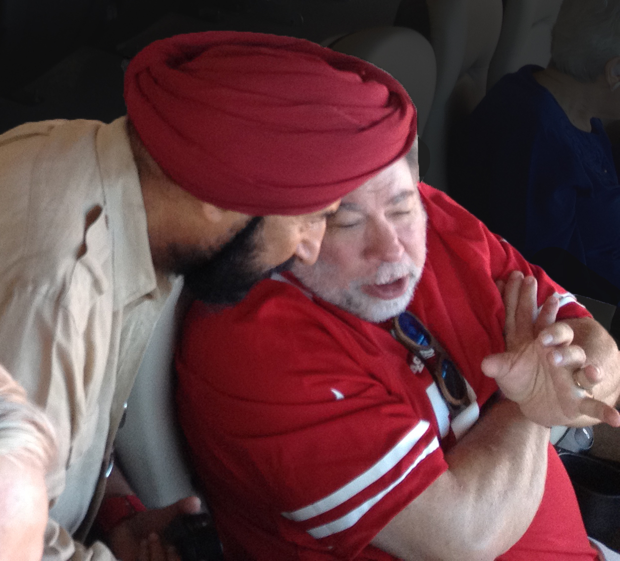 Woz and Satjiv in Silicon Valley